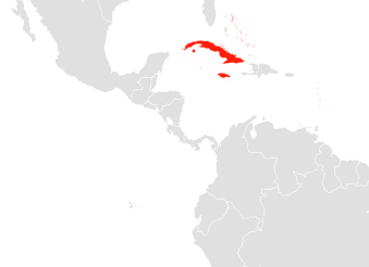 Distribution of Erophylla sezekorni